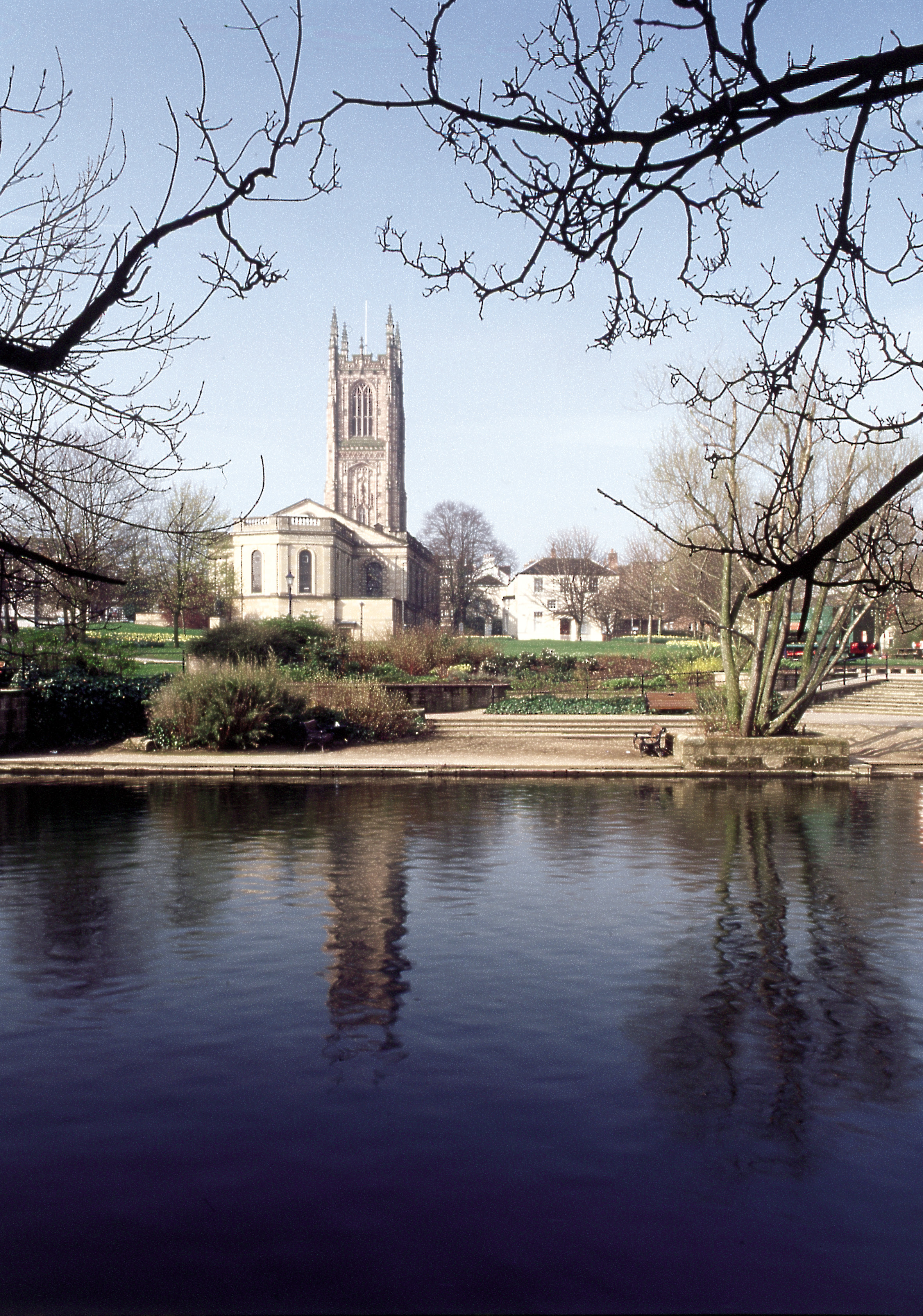 seen from across the Derwent